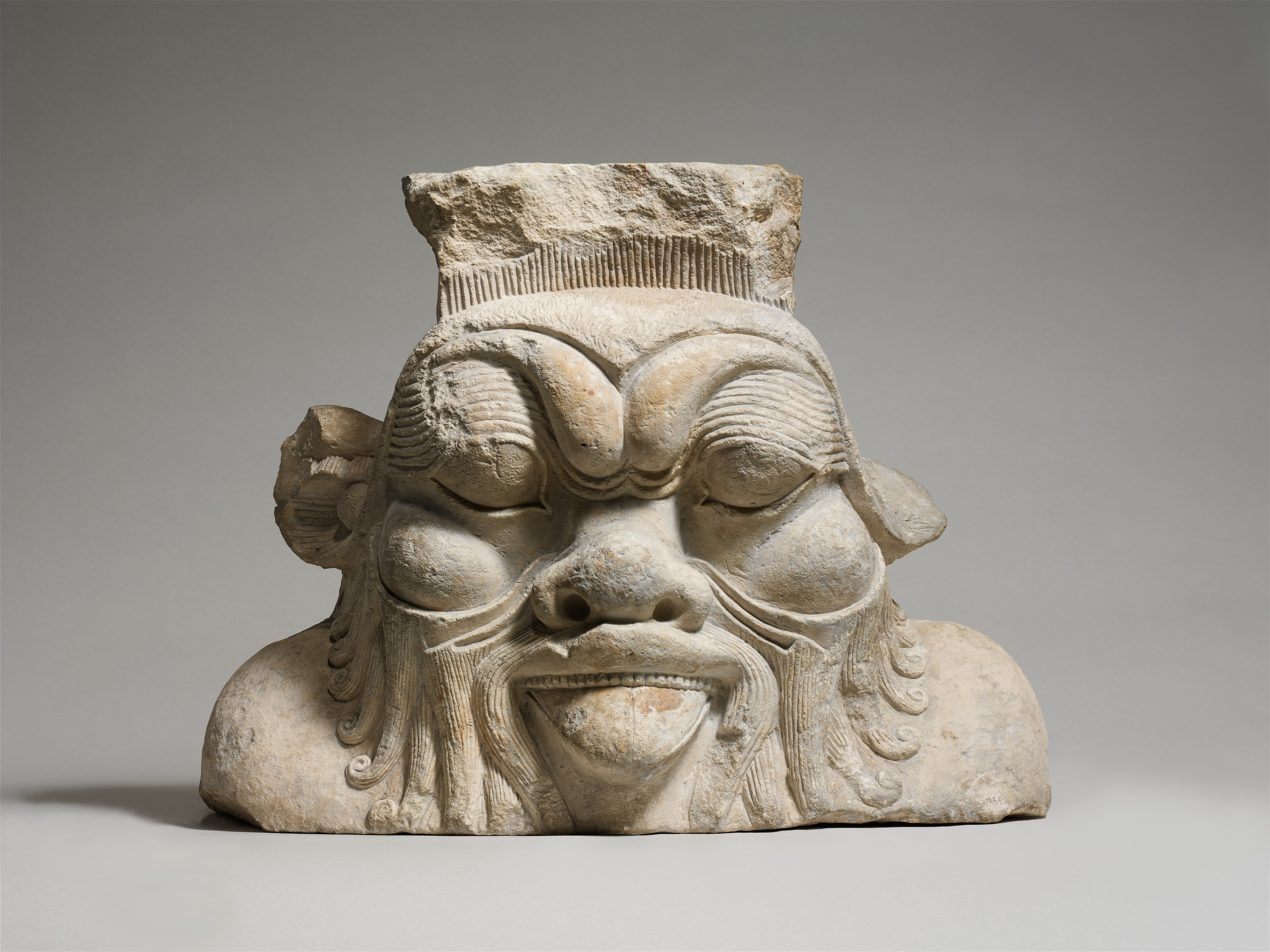 Column capital, Bes-image